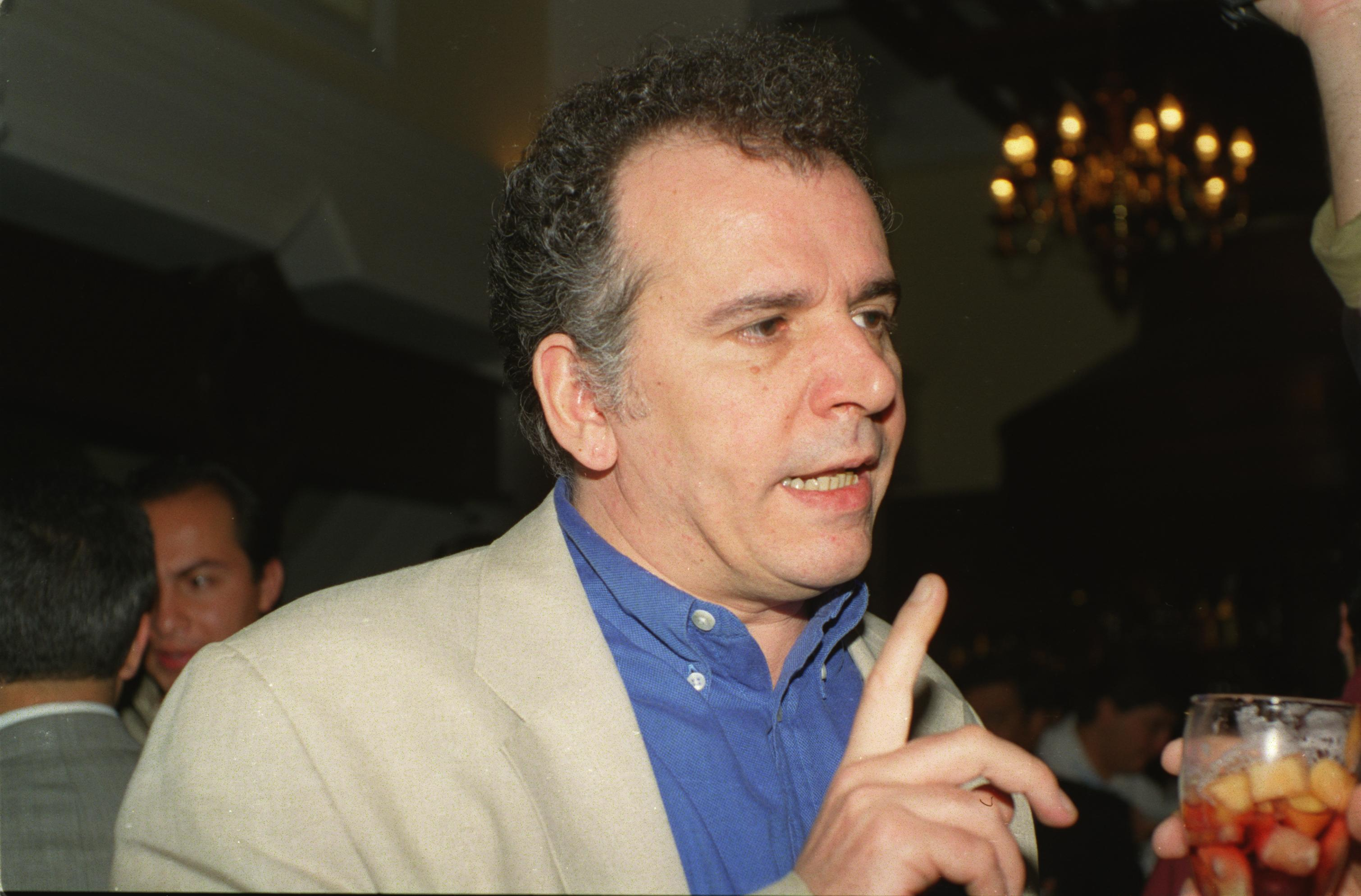 Argentine film director Marcelo Piñeyro at the XIII Mexican film festival in Guadalajara (1998).